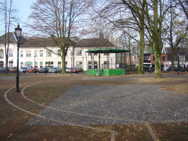 Rondeel Bredevoort